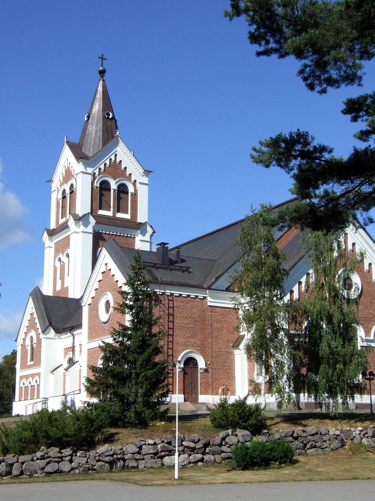 The church of Lumijoki was designed by architect John Lybeck and it was completed in 1889.